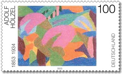 Stamp from Deutsche Post AG from 2003, Komposition by Adolf Hölzel